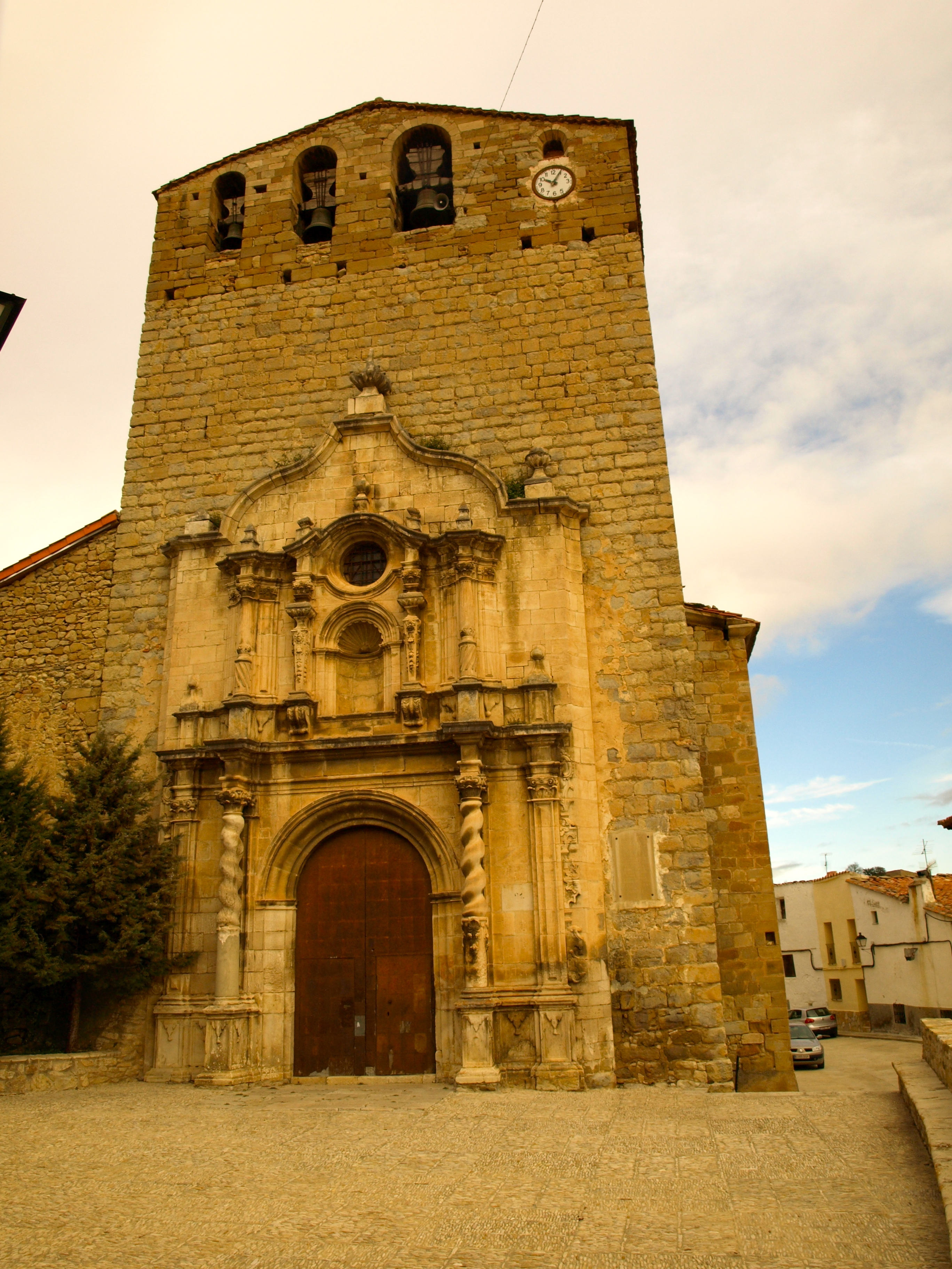 Portell Assumpció church front wall